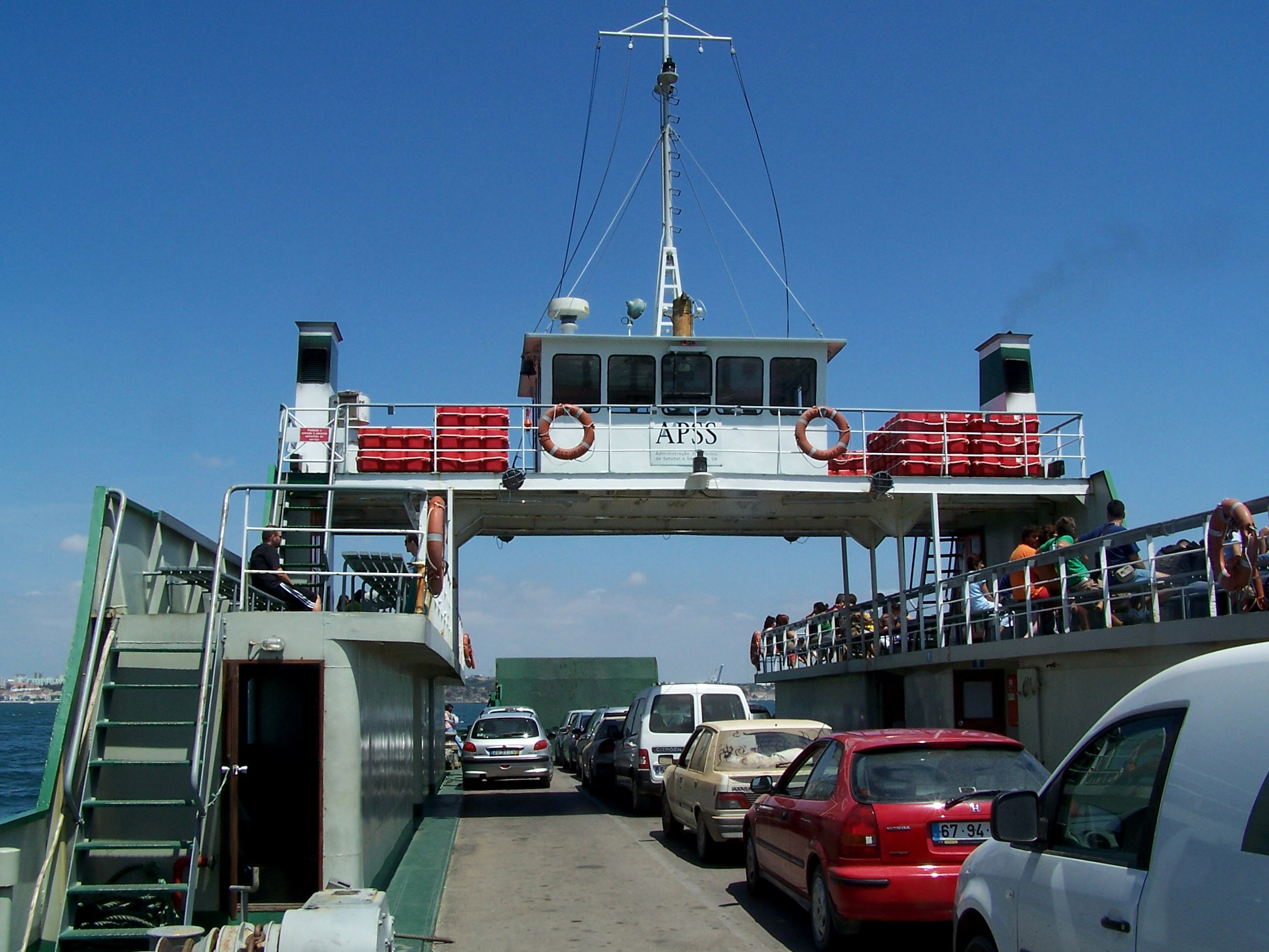 Ferry-Boat de Setúbal-Tróia - Setúbal. (Interior do Ferry-Boat) Setúbal is a city and a municipality in Portugal with a total area of 172.0 km² and a total population of 118,696 inhabitants in the municipality. The city proper has 89,303[1] inhabitants. The municipality is composed of 8 parishes, and is located in the district of Setúbal.